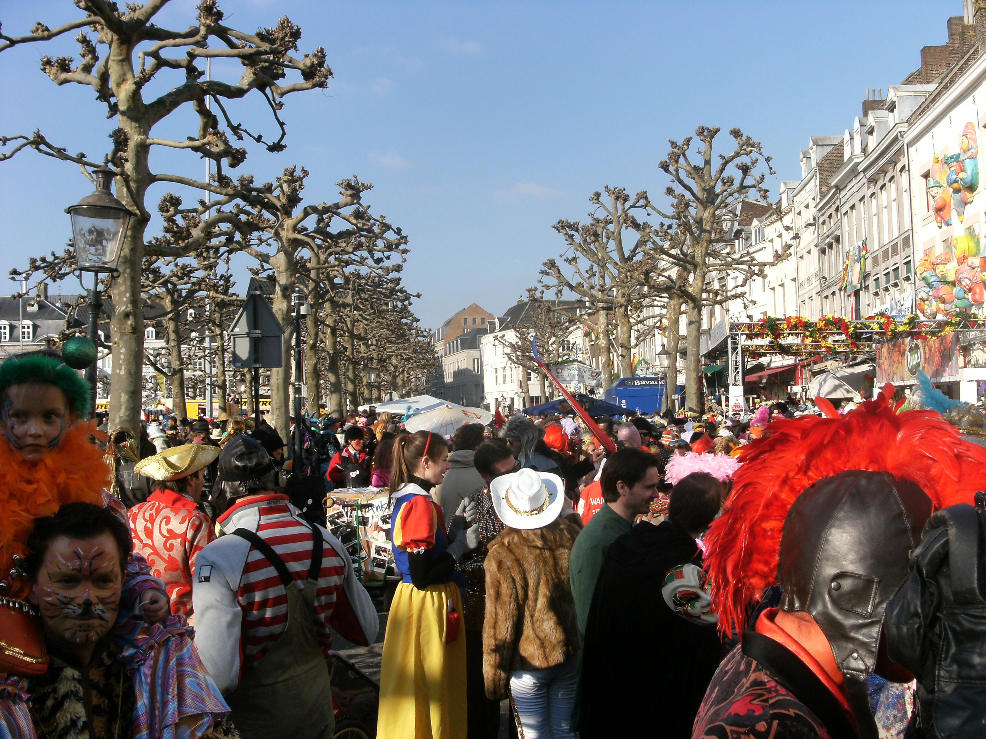 Maastricht carnaval 2011.